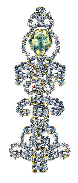 Reconstruction of the aigrette with the famous but lost Florentine Diamond.